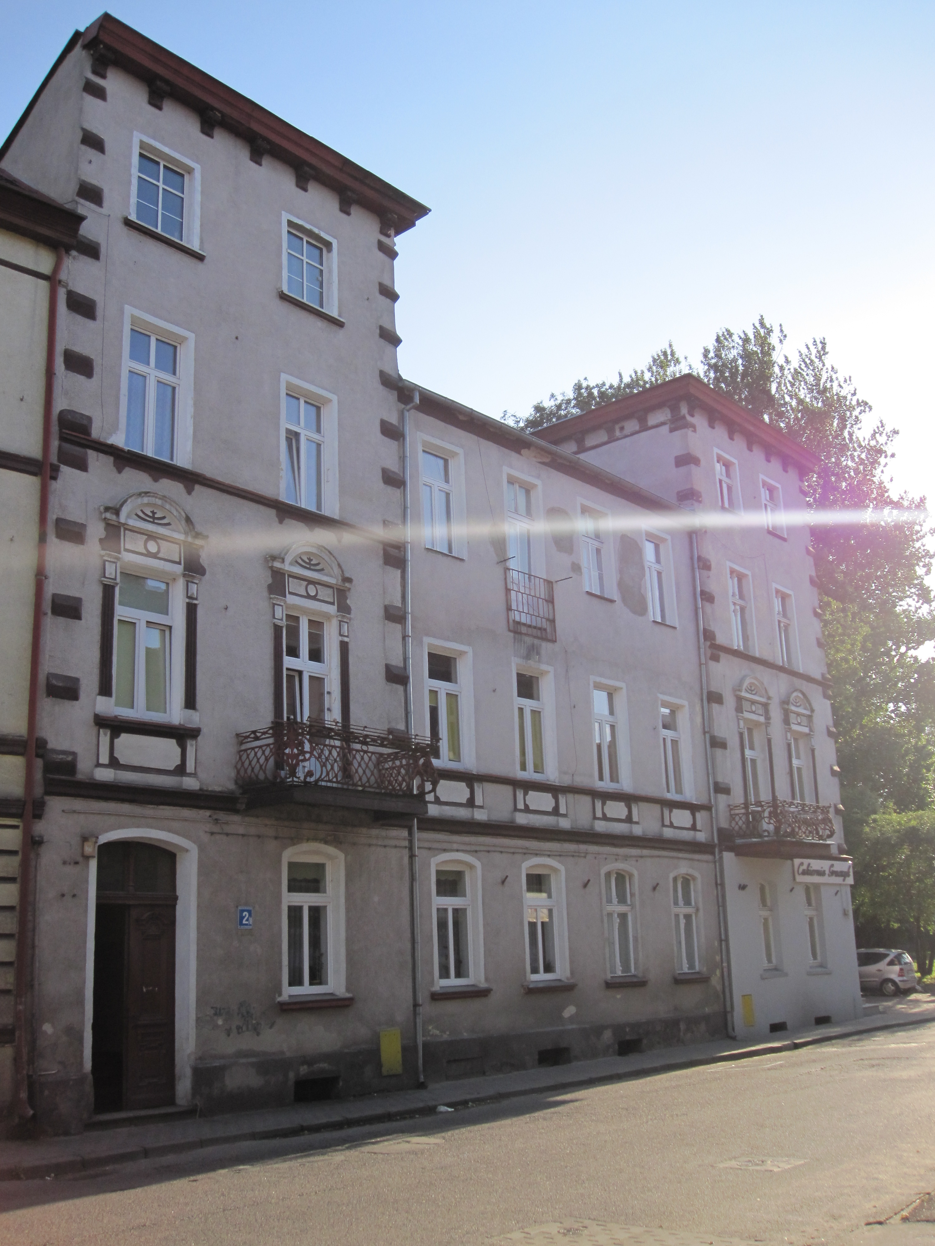 Ostróda - tenement on the 2 Stapińskiego street